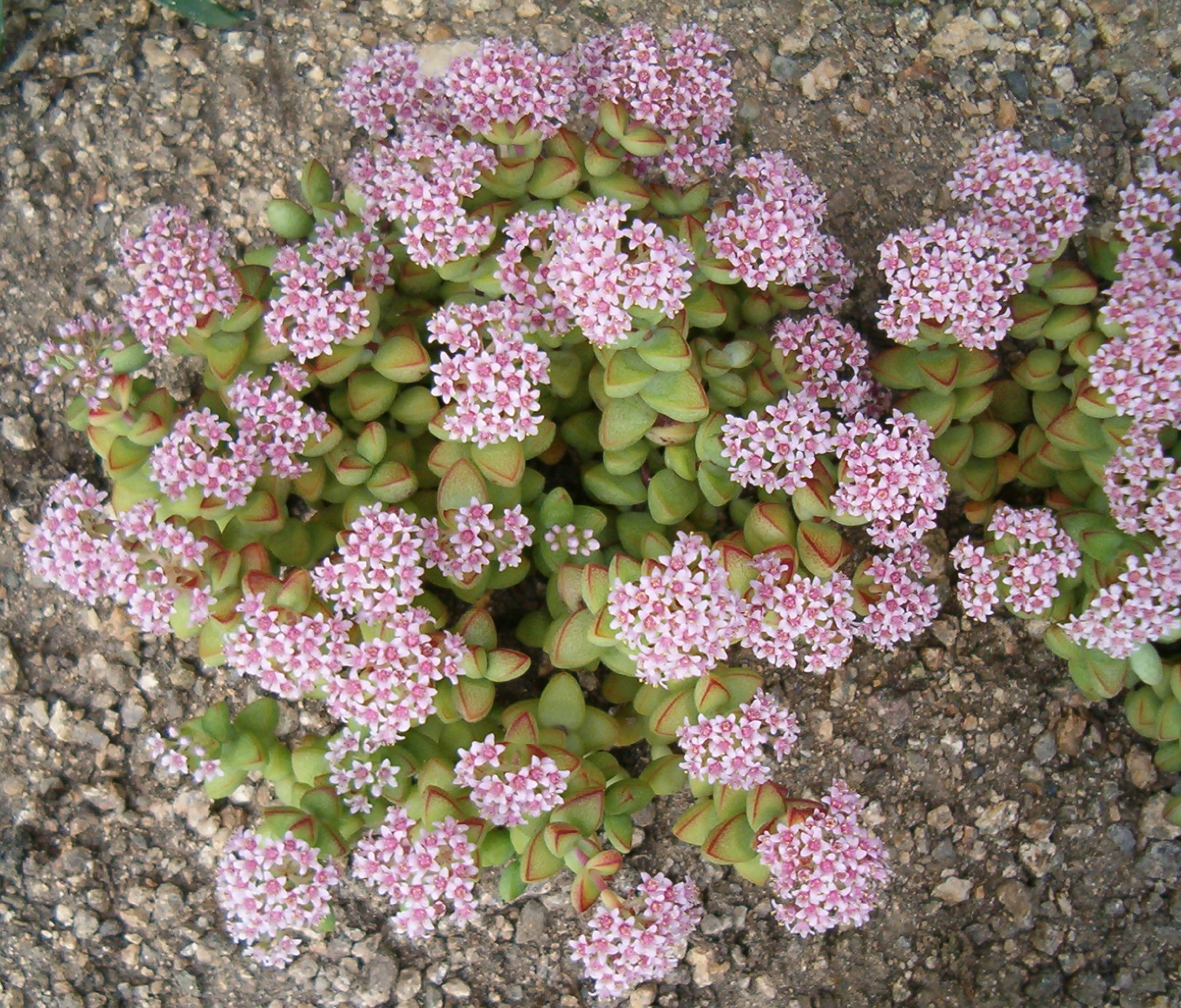 Location: Botanical Gardens Berlin Dahlem Xerophyt